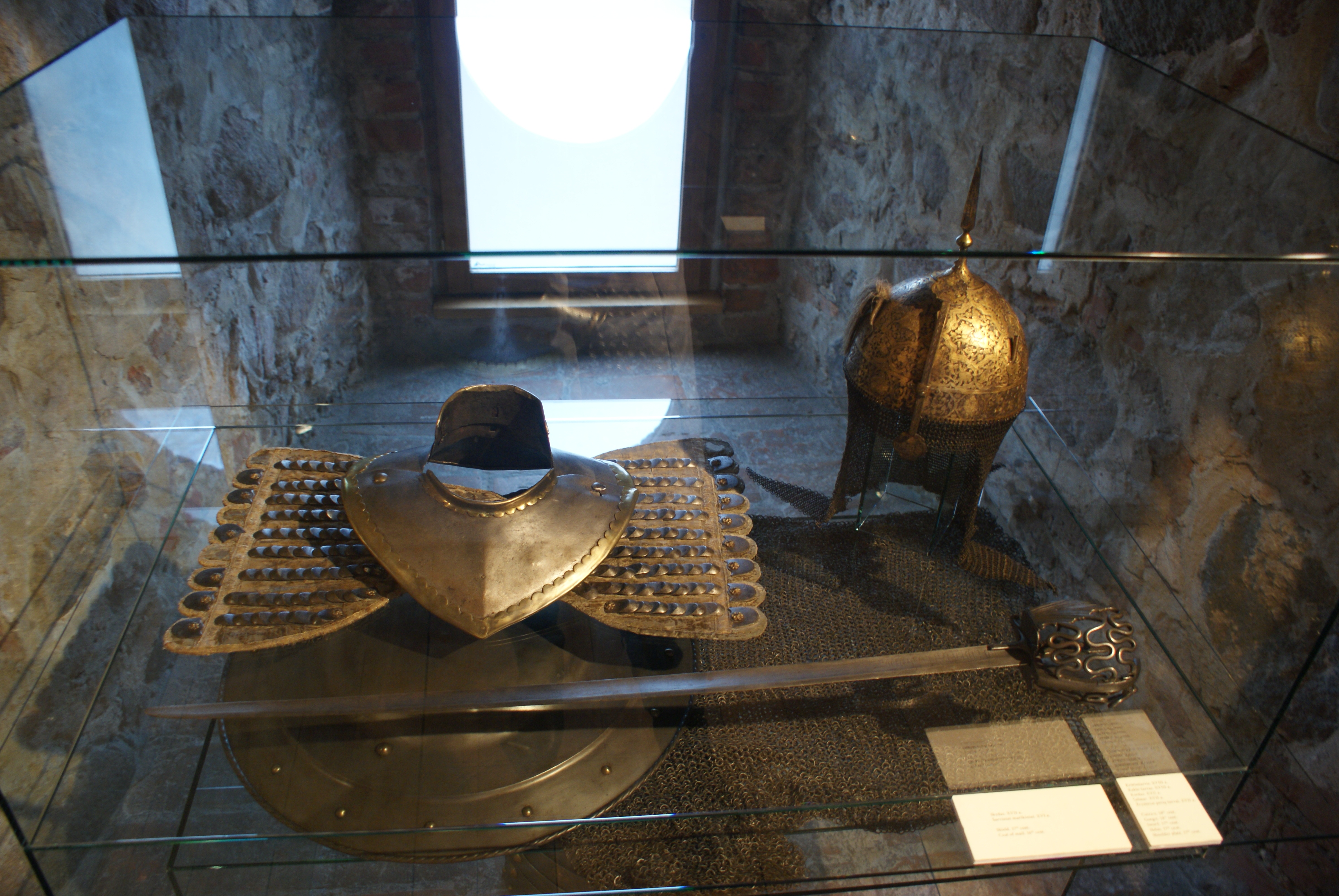 Subjects of archeology at the Tower of Gediminas